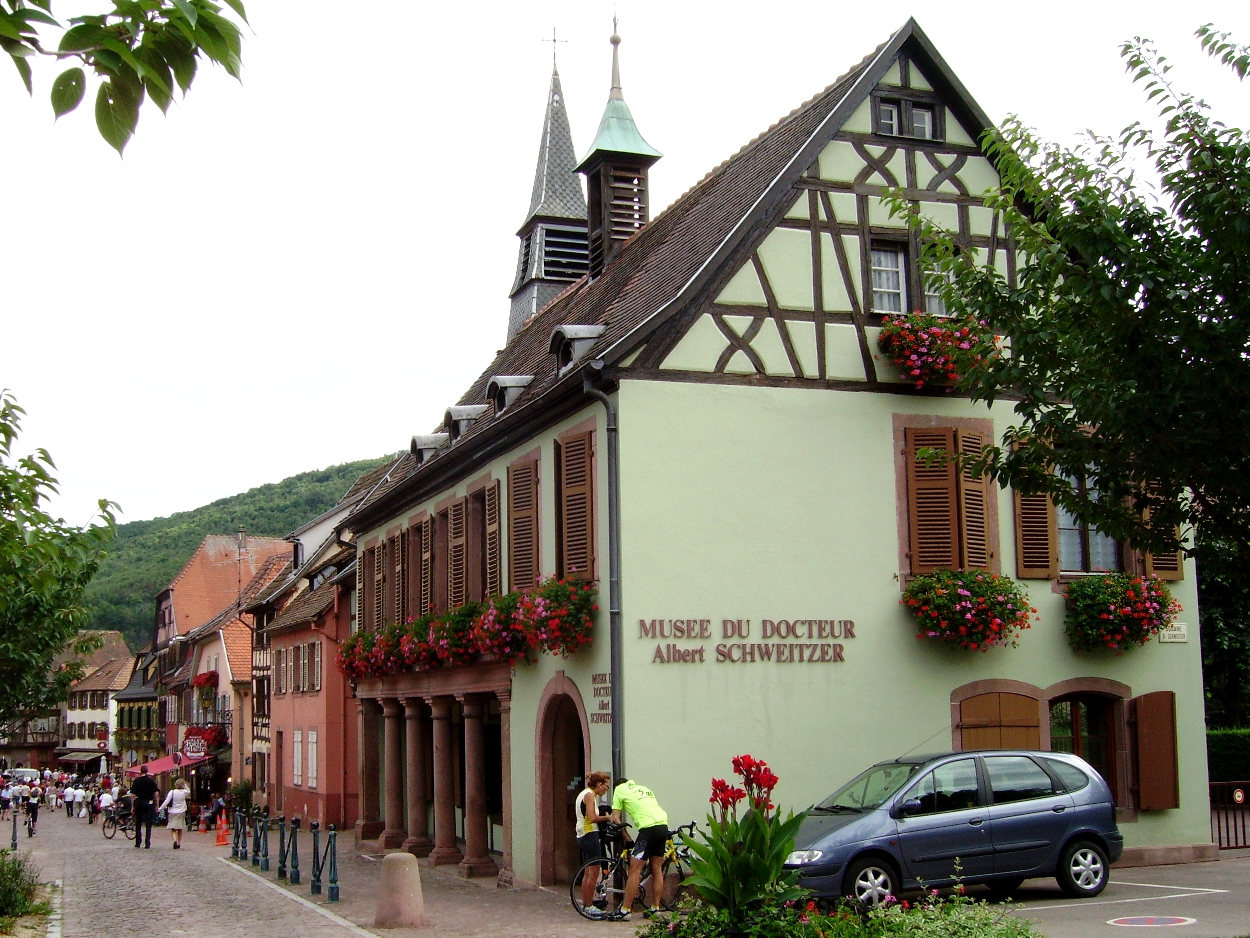 Kaysersberg (France) Albert Schweitzer's house museum